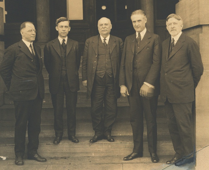 Leaders of the U.S. state of Tennessee gathered on the steps of the state capitol in Nashville in 1921. Left to right: University of Tennessee president Harcourt Morgan, Speaker of the Tennessee Senate William Bond, Governor Alfred Taylor, Speaker of the Tennessee House of Representatives Andrew Todd, and Judge Edward Terry Sanford.